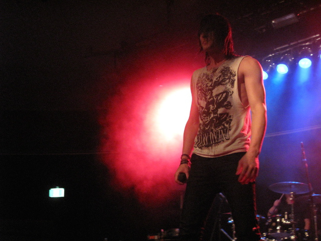 The lead singer of Blessthefall, taken on 12th of june '10 at UNSW Roundhouse Sydney.